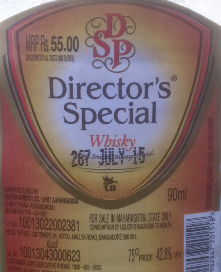 Photo of director's special whiskey bottle